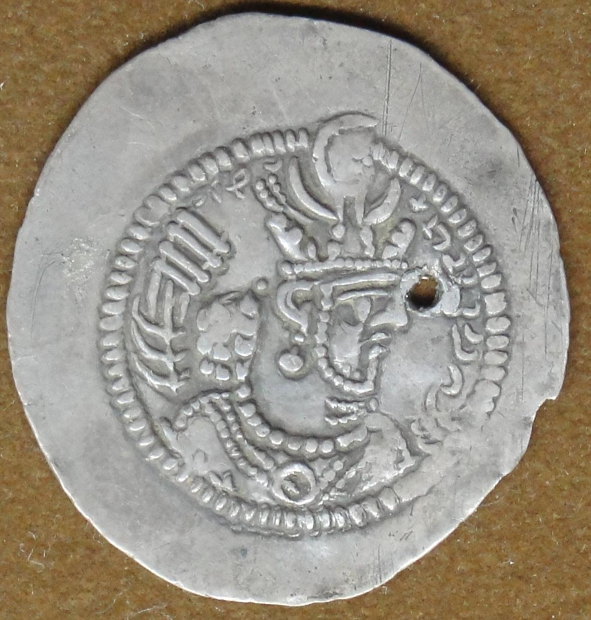 Bahram V Sassanid silver coin